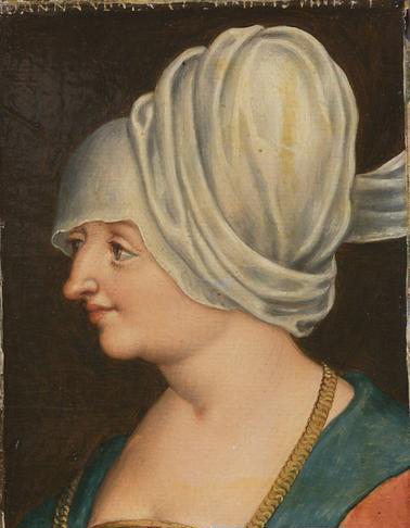 Mathilde of the Palatinate, wife of Albert VI